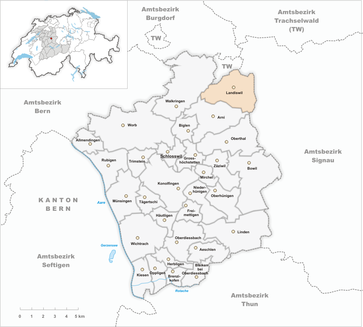 Municipality Landiswil